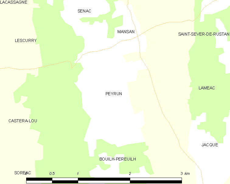 Map of French municipality